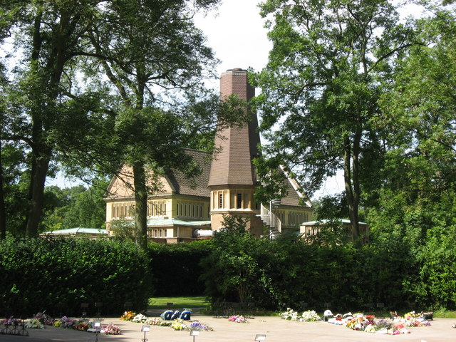 Peterborough Crematorium, near to Marholm, Peterborough, Great Britain.